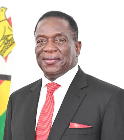 Official Portrait of the Third President of the Republic of Zimbabwe, Emmerson Mnangagwa, as issued by the Government of Zimbabwe for display in all public buildings.